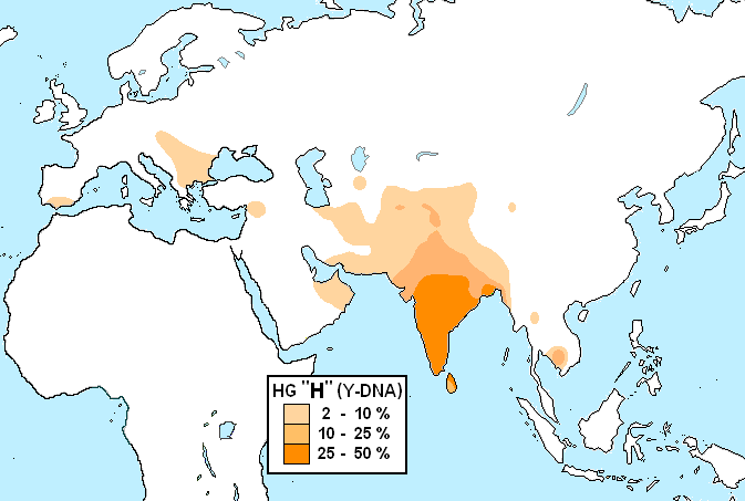 Haplogroup H (Y-DNA) distribution